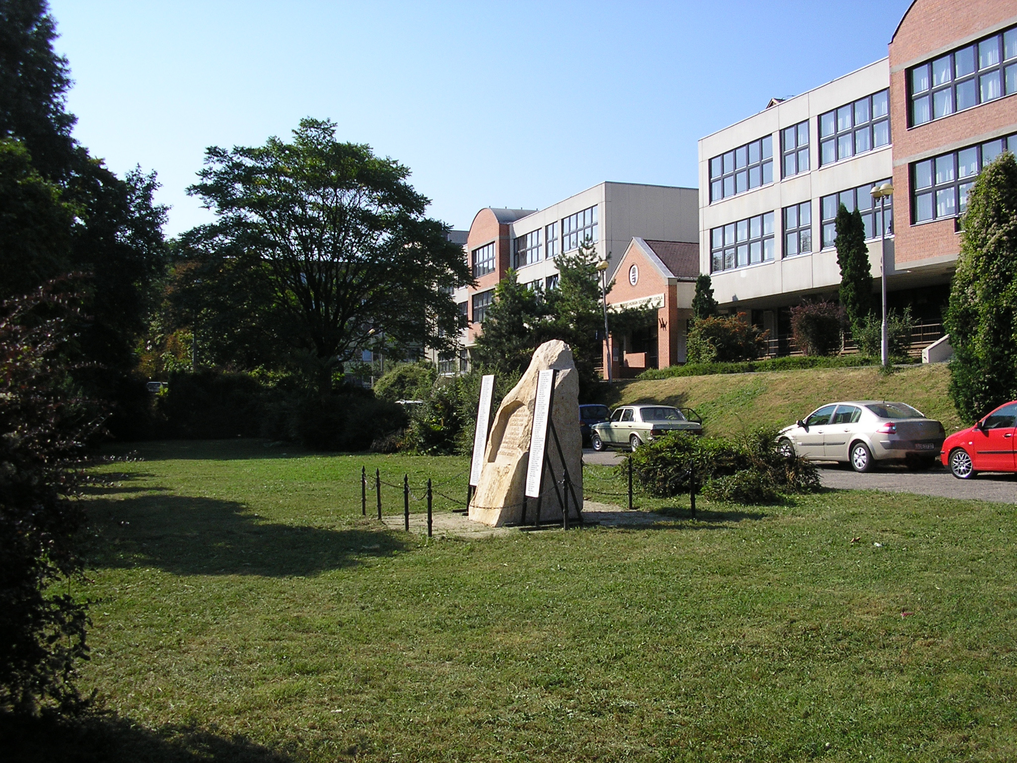 Holocaust memorial stone at the place of the former brick factory of Óbuda (Budapest, 2008)